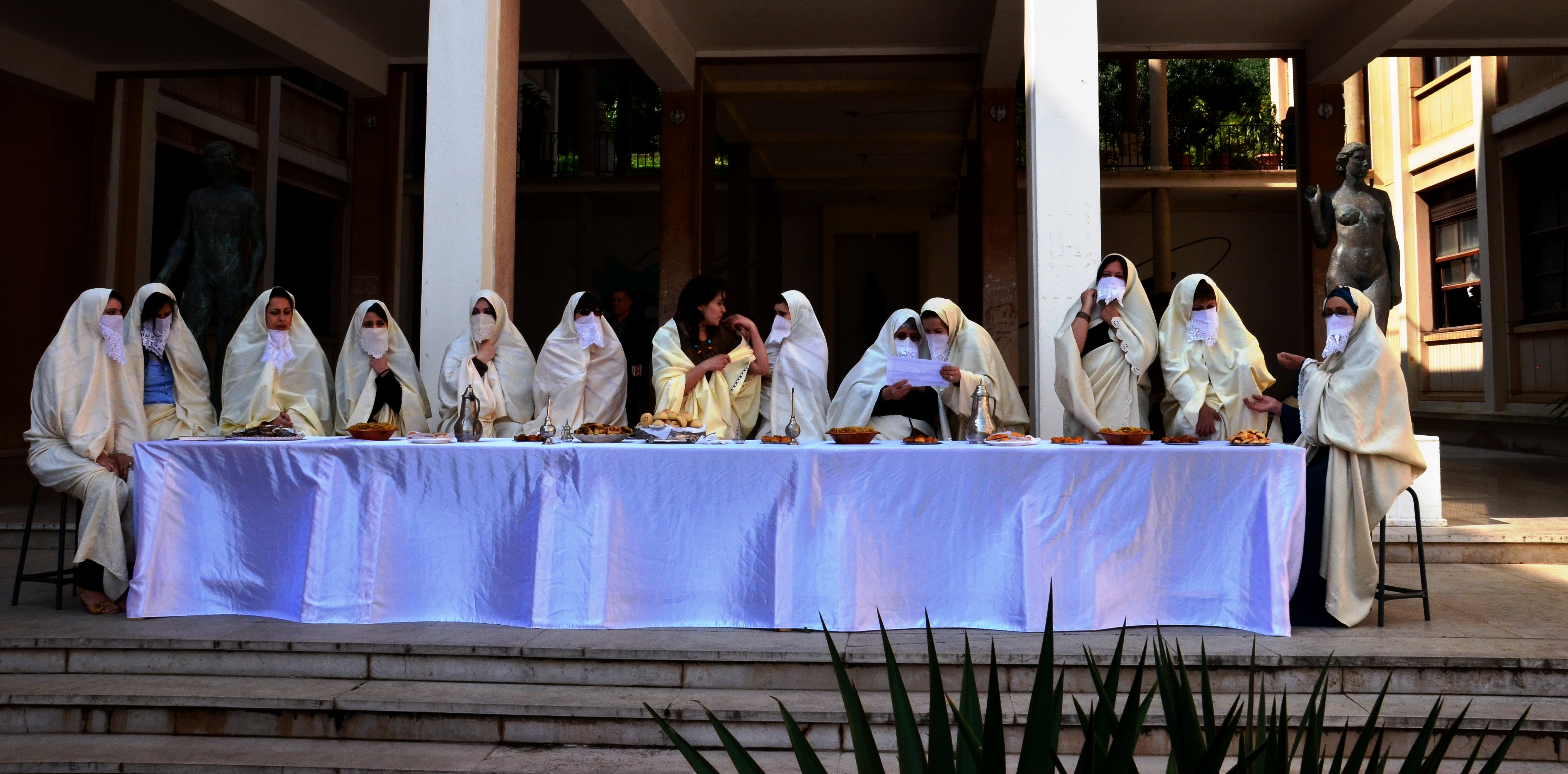 This is an image with the theme "Play" from: Algeria